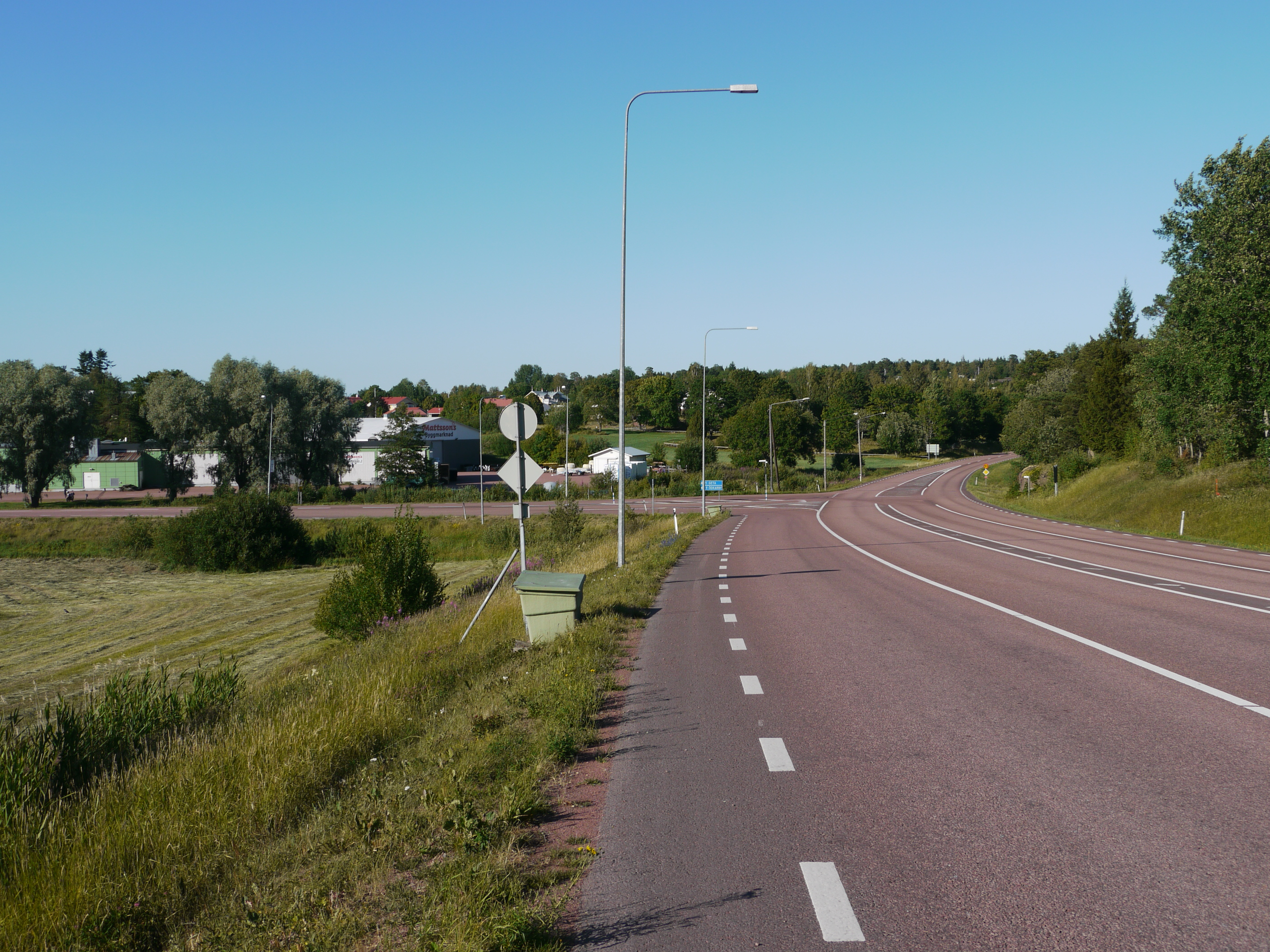 Main road 2 near Godby, Åland